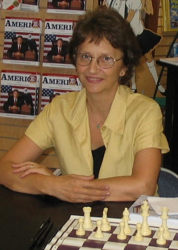 Mária Ivánka, Hungarian chess master